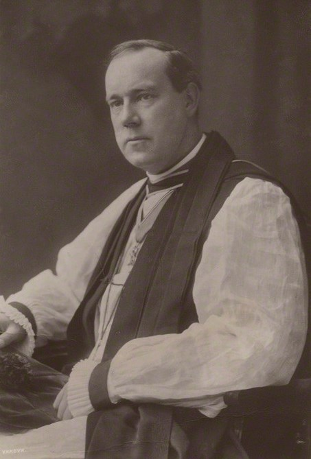 Bertram Pollock (1863-1943), Bishop of Norwich